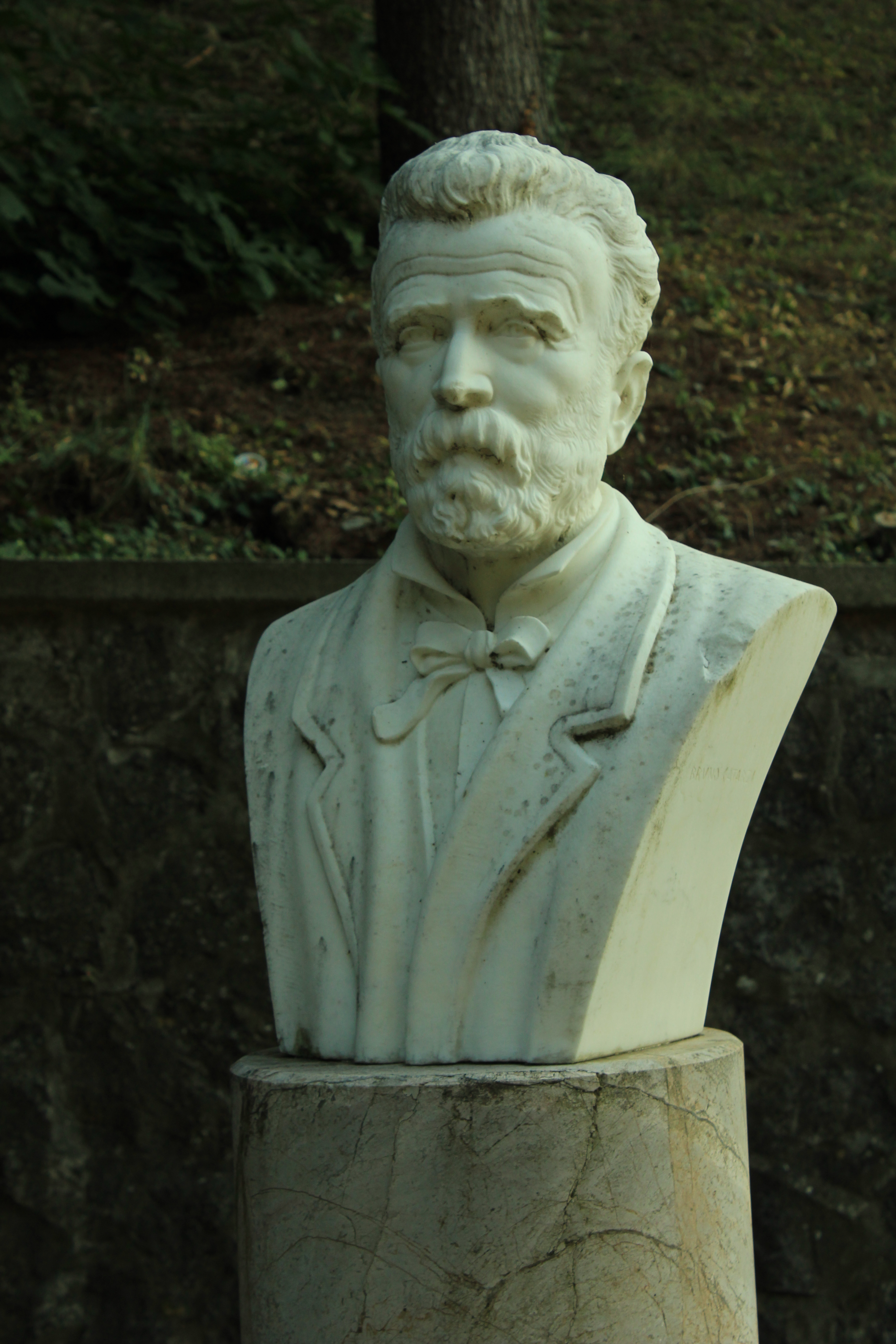 Sculpture of Renato Fucini in Monterotondo Marittimo